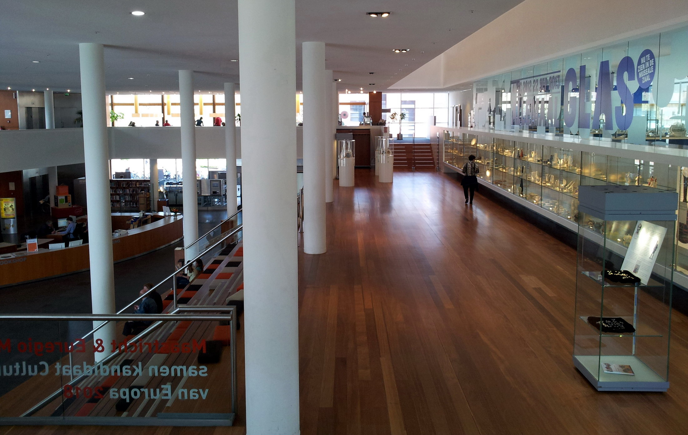 Maastricht, the Netherlands. View of the interior of Centre Céramique (public library and cultural center). To the right a temporary exhibition on earthenware from the Mosa potteries in Maastricht.